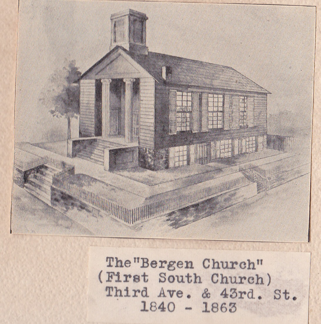 Bay Ridge United Church predecessor Bergen Church, also called South Reformed Church, at 3rd Avenue and 43rd Street.